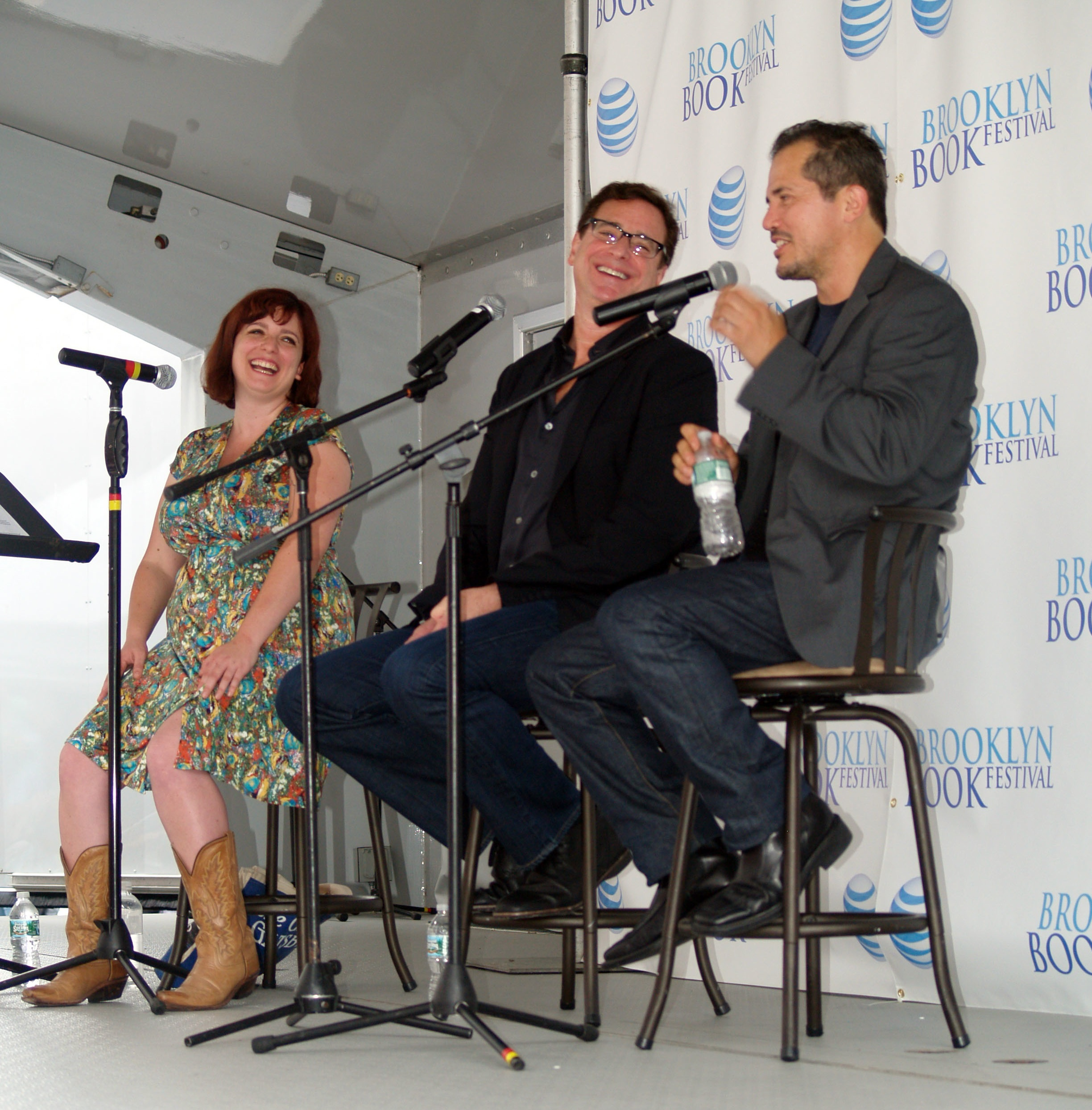 At left, comedian and talk show host Sara Benincasa, moderating the "Comedians as Authors" panel at the the 2014 Brooklyn Book Festival. Speaking on the panel next to Benincasa are actor/comedians-turned-novelists Bob Saget and John Leguizamo. This photo was created by Luigi Novi. It is not in the public domain, and use of this file outside of the licensing terms is a copyright violation.